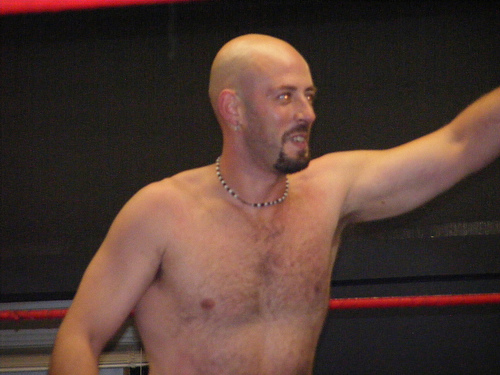 Justin Credible (Peter Polaco) at an Assault Championship Wrestling (ACW) show on September 28, 2008